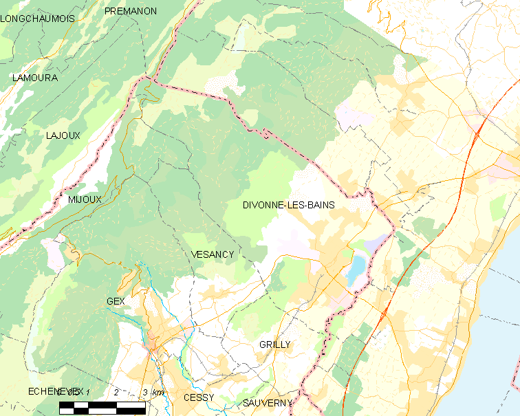 Map of French commune: Divonne-les-Bains Map commune FR insee code 01143.png